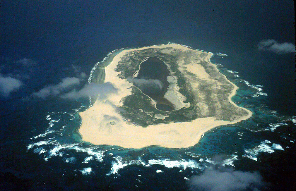 Aerial view of Laysan Island, Northwestern Hawaiian Islands